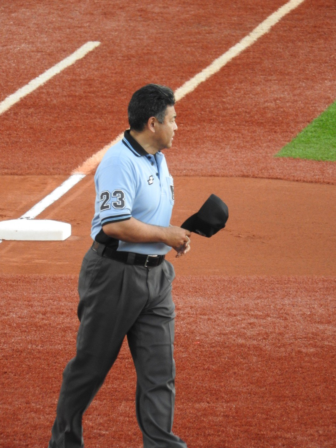 umpire of NPB.